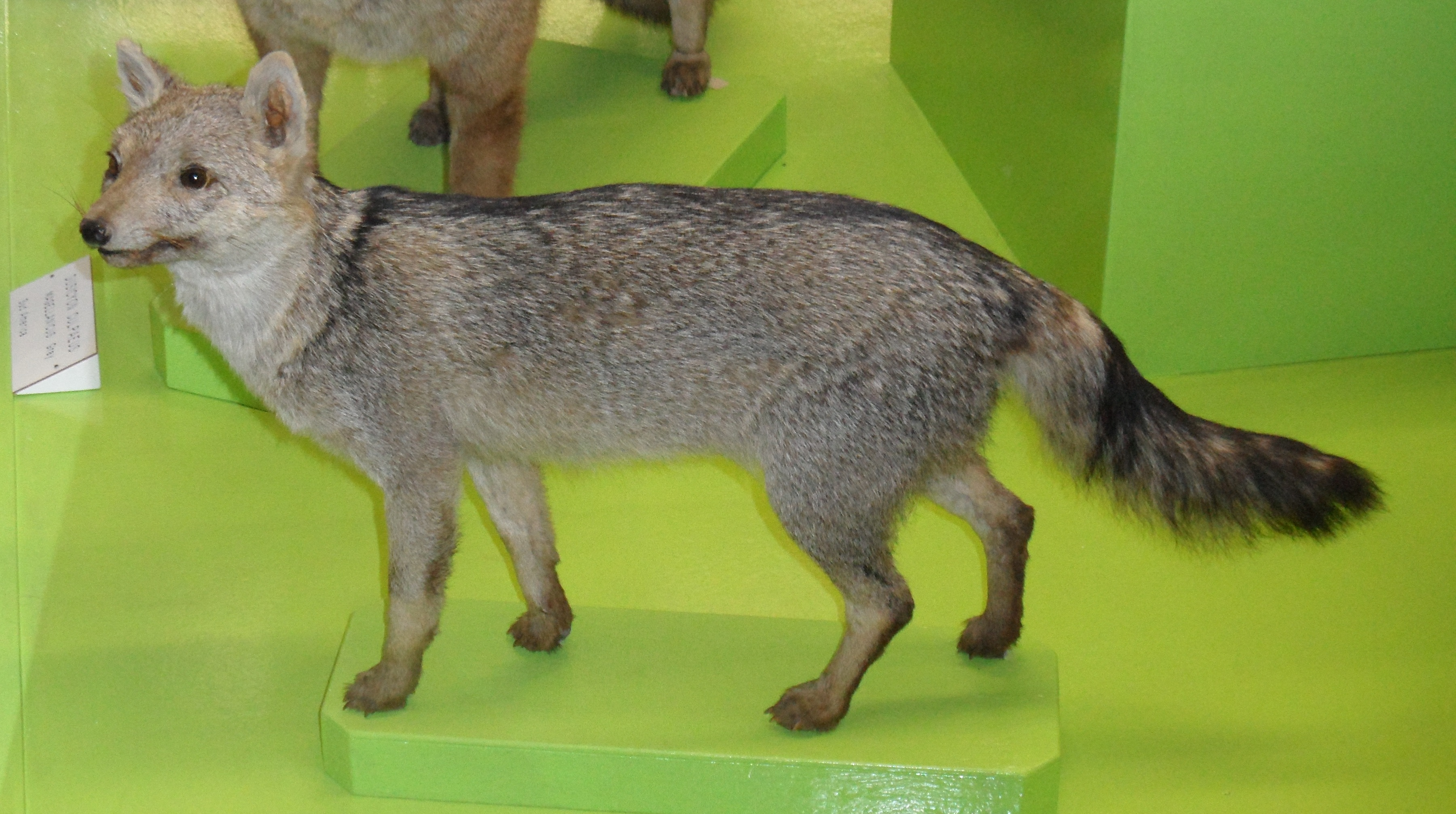 Crab-eating fox on display in the Natural History Museum of Genoa